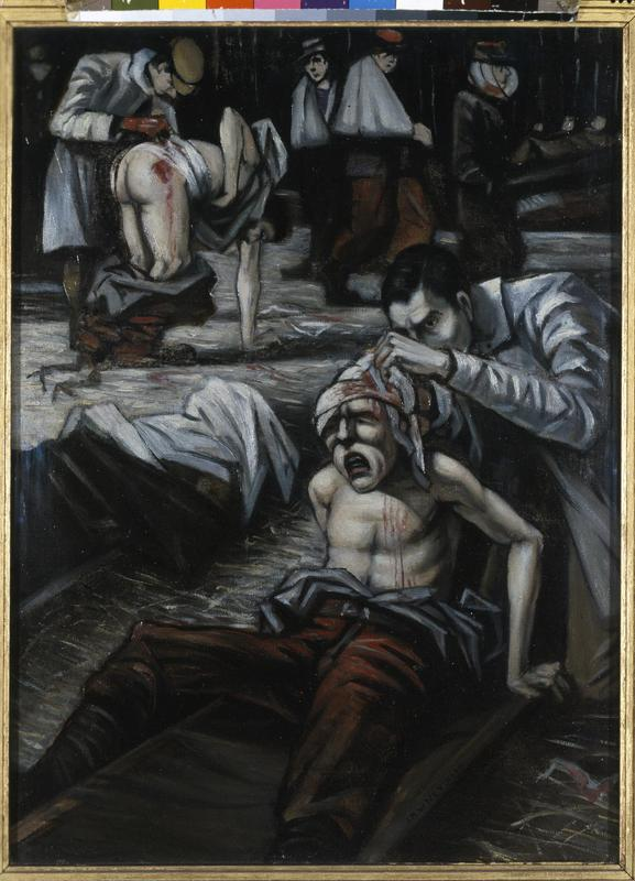 The Doctor image: Doctors and medical orderlies are treating injured soldiers in an open building with straw on the floor. One patient, stripped to the waist, is sitting up on a stretcher while a doctor inspects a loosely dressed wound to his head. Next to him a body lies on a stretcher the face covered in bandages. Behind, a patient is crouching on all fours with his trousers round his ankles, while a doctor inspects a wound in his lower back. Two other French soldiers stand by with arms in slings.